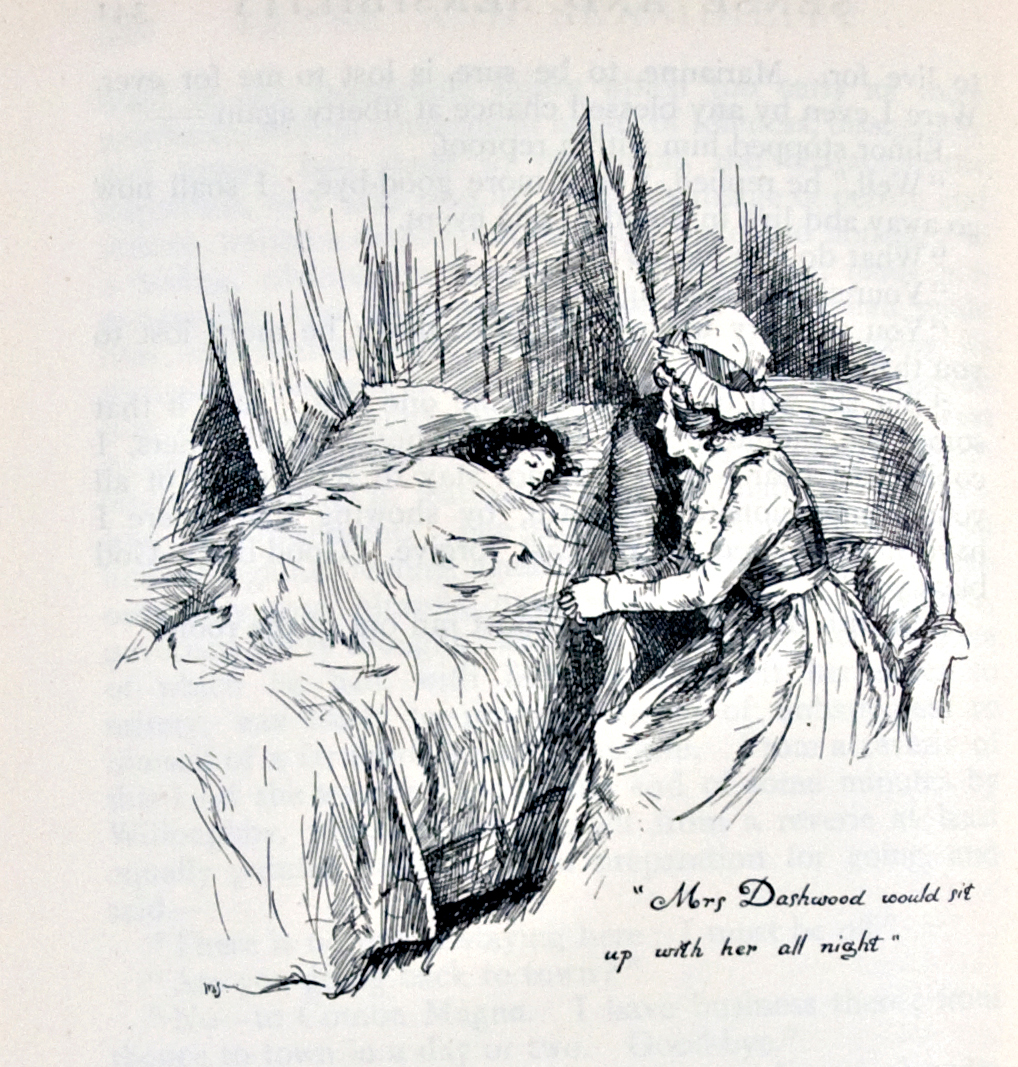 "Mrs Dashwood would sit up with her all night" - When Marianne is sick, her mother sits up with her at night. Austen, Jane. Sense and Sensibility. London: George Allen, 1899, page 342.